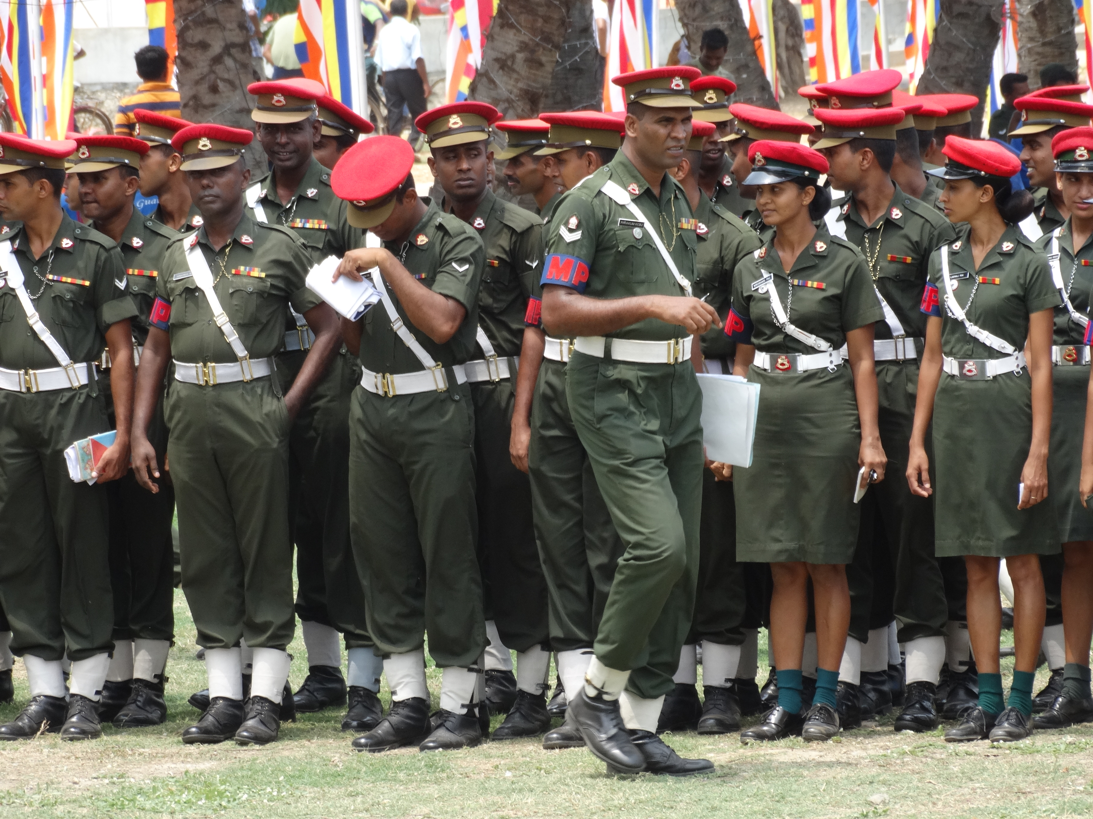 Government Forces on Parade for Buddha's Birthday - Jaffna - Sri Lanka